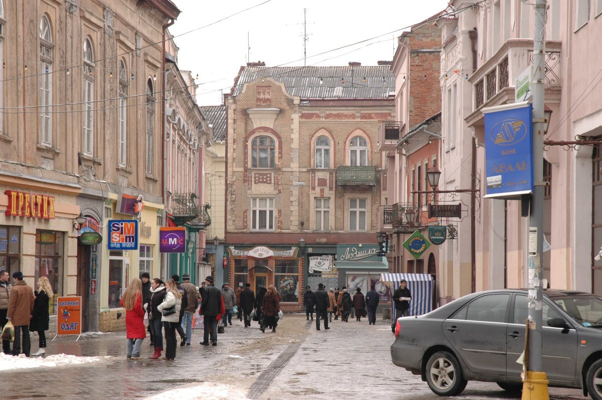 The Teatralnyi close in Uzhhorod (Ukraine). A view from the Teatralna square.